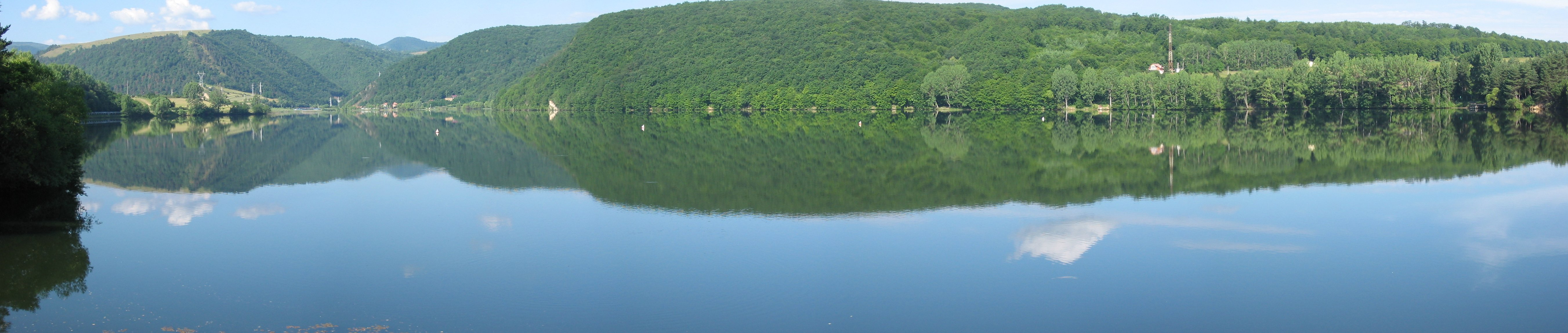 panorama of Somesu Rece lake from Cluj county, Romania.